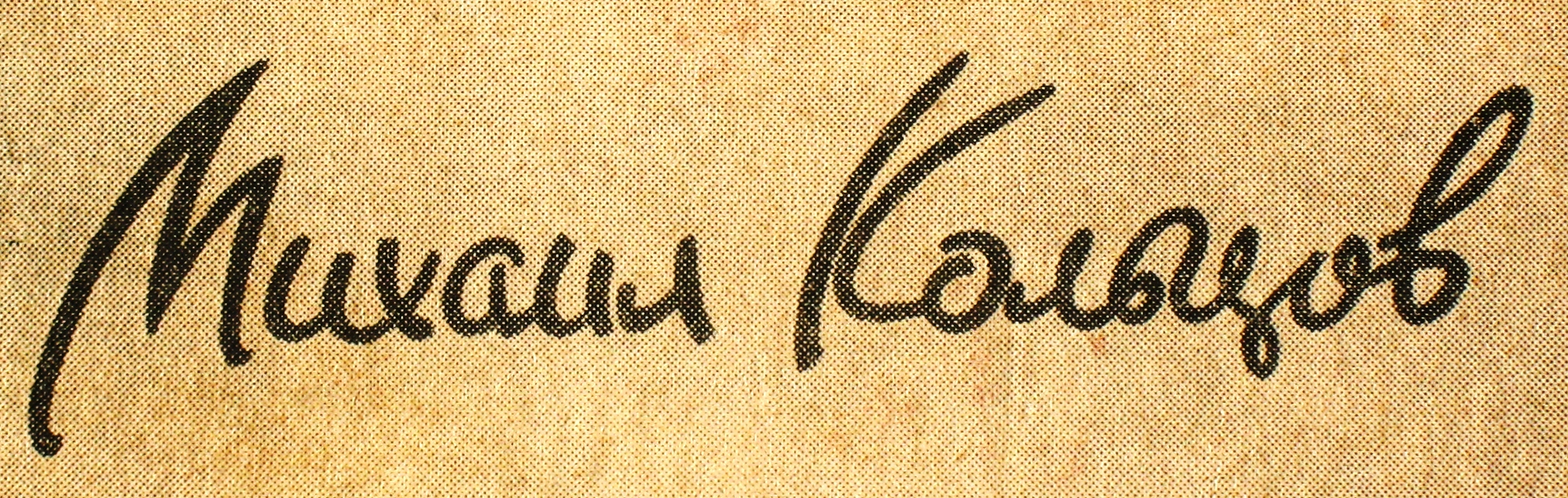 Russian writer Mikhail Koltsov signature on his book.